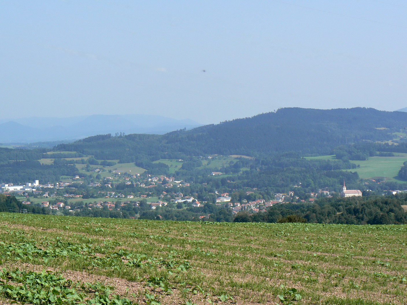 Panorama of Anould, Vosges, France